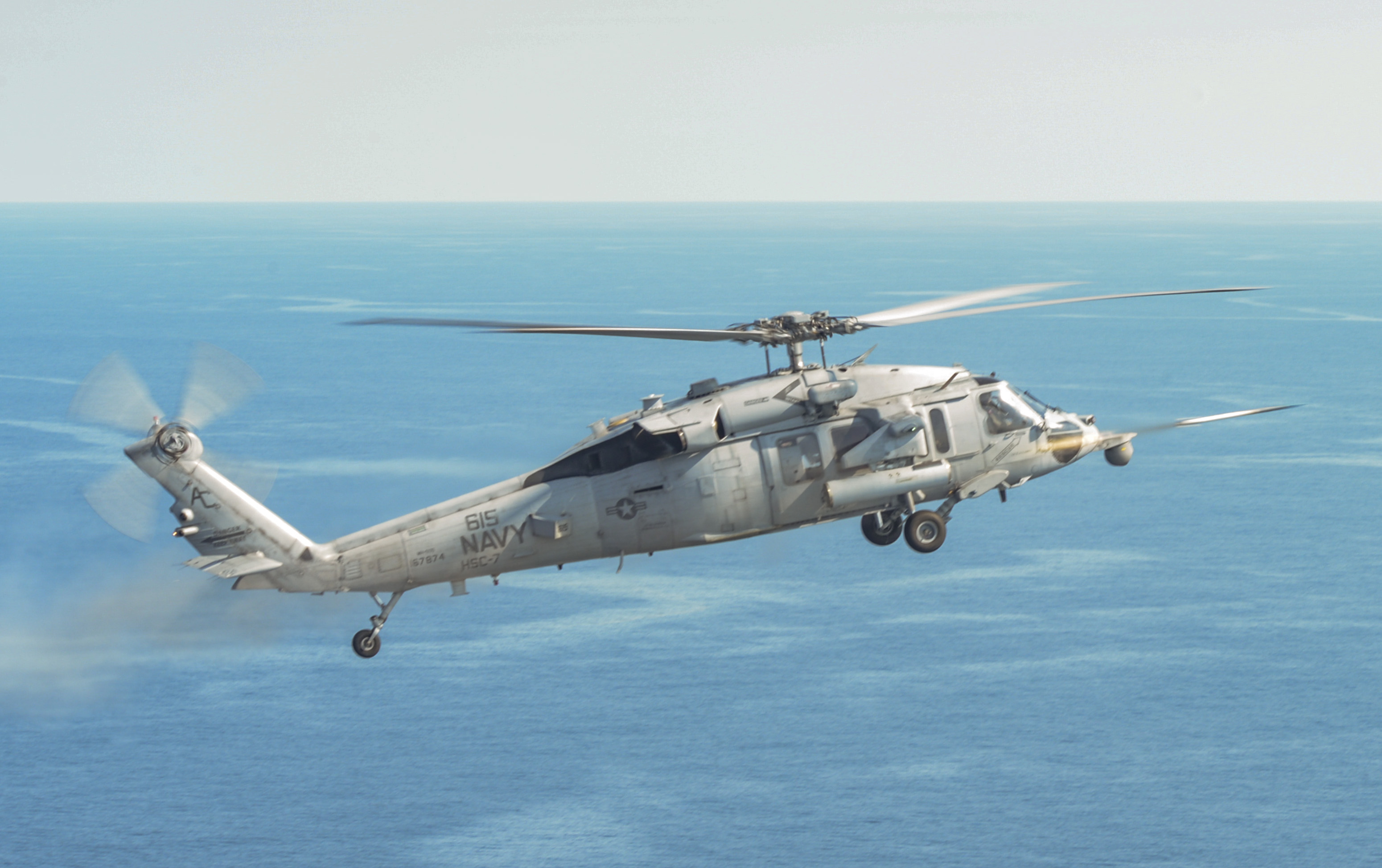 150817-N-XB010-635 NORFOLK, Va. (Aug. 18, 2015) An SH-60S Sea Hawk helicopter attached to the Dusty Dogs of Helicopter Sea Combat Squadron (HSC) 7 fires an Advanced Precision Kill Weapon System II during a live-fire qualification exercise at a practice range off the Virginia coast. The Dusty Dogs are preparing for a deployment with the USS Dwight D. Eisenhower (CVN 69) Carrier Strike Group in the 5th Fleet area of responsibility. (U.S. Navy photo by Mass Communication Specialist 3rd Class Desmond Parks/Released)